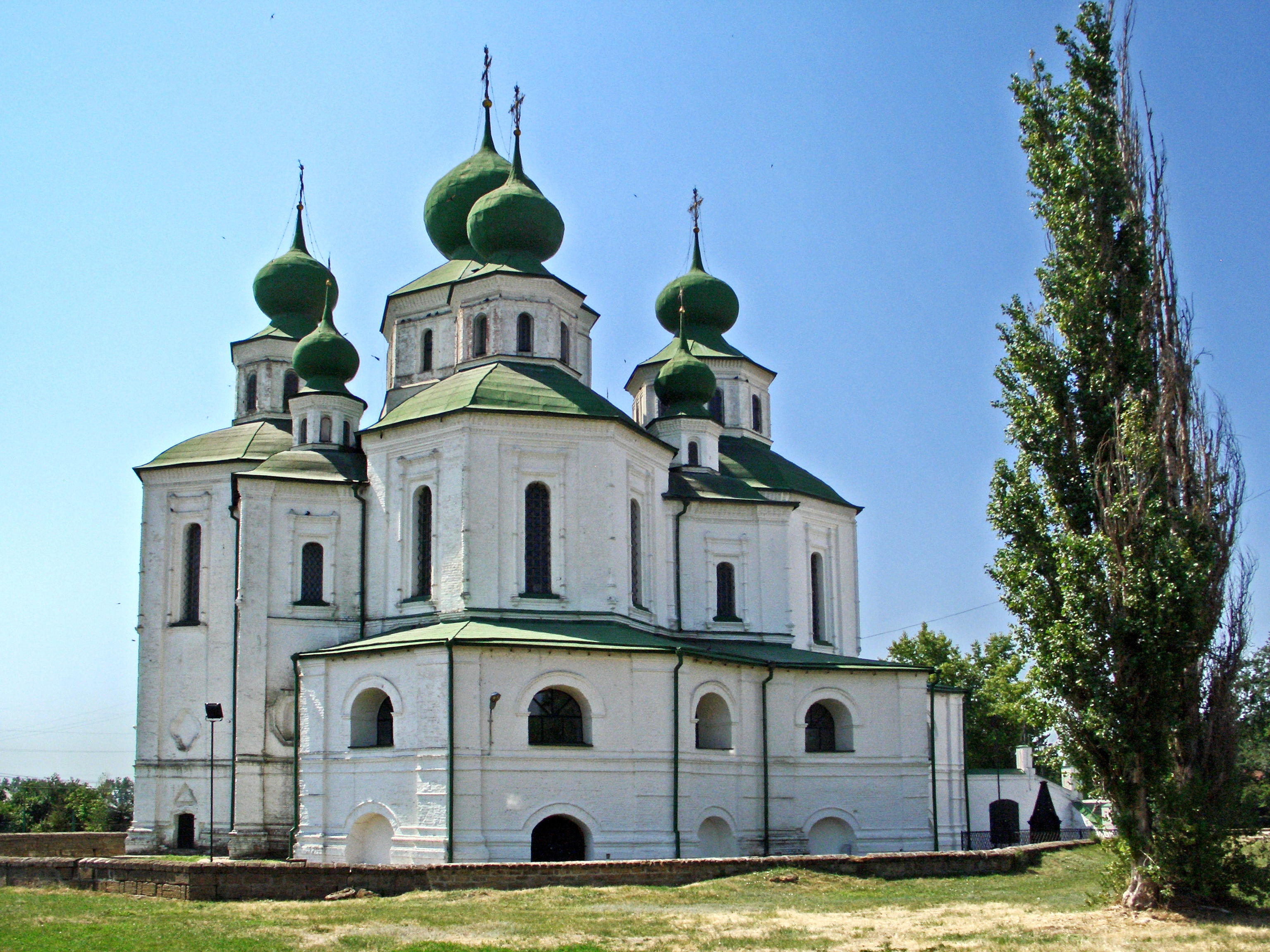 Voyskovoy (Voskresensky) sobor (Resurrection Cathedral) in Starocherkasskaya